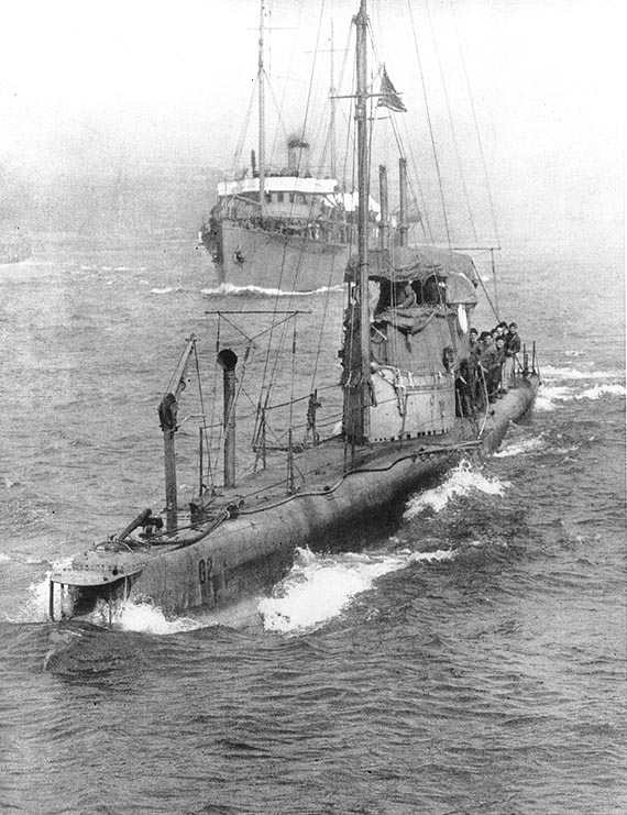 USS G-2 underway, circa 1916, with USS Fulton (AS-1) following astern. Courtesy of Alfred Cellier, 1977. US Naval Historical Center Photograph.